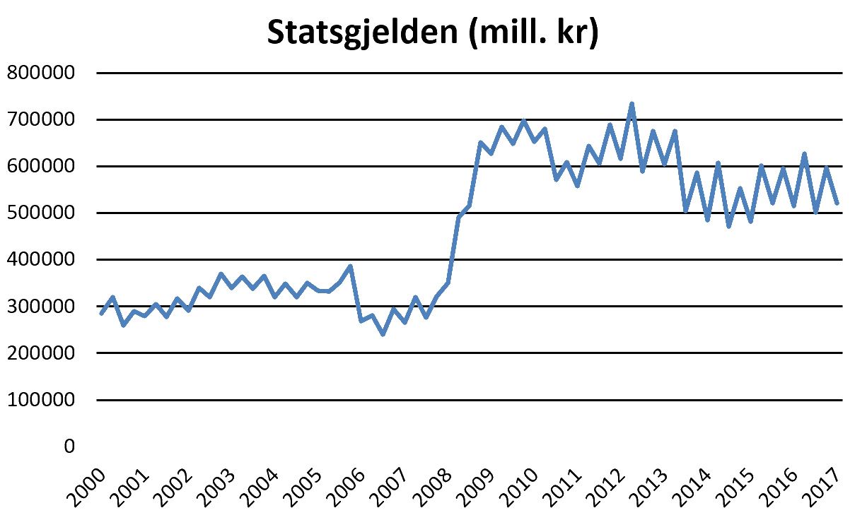 Goverment debt of norway from 2000 to 2017